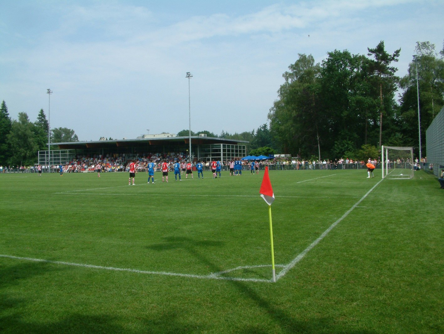 PSV - Pão de Açúcar (Youth U19) during the Otten Cup at "de Herdgang"; 31st of May, 2008.